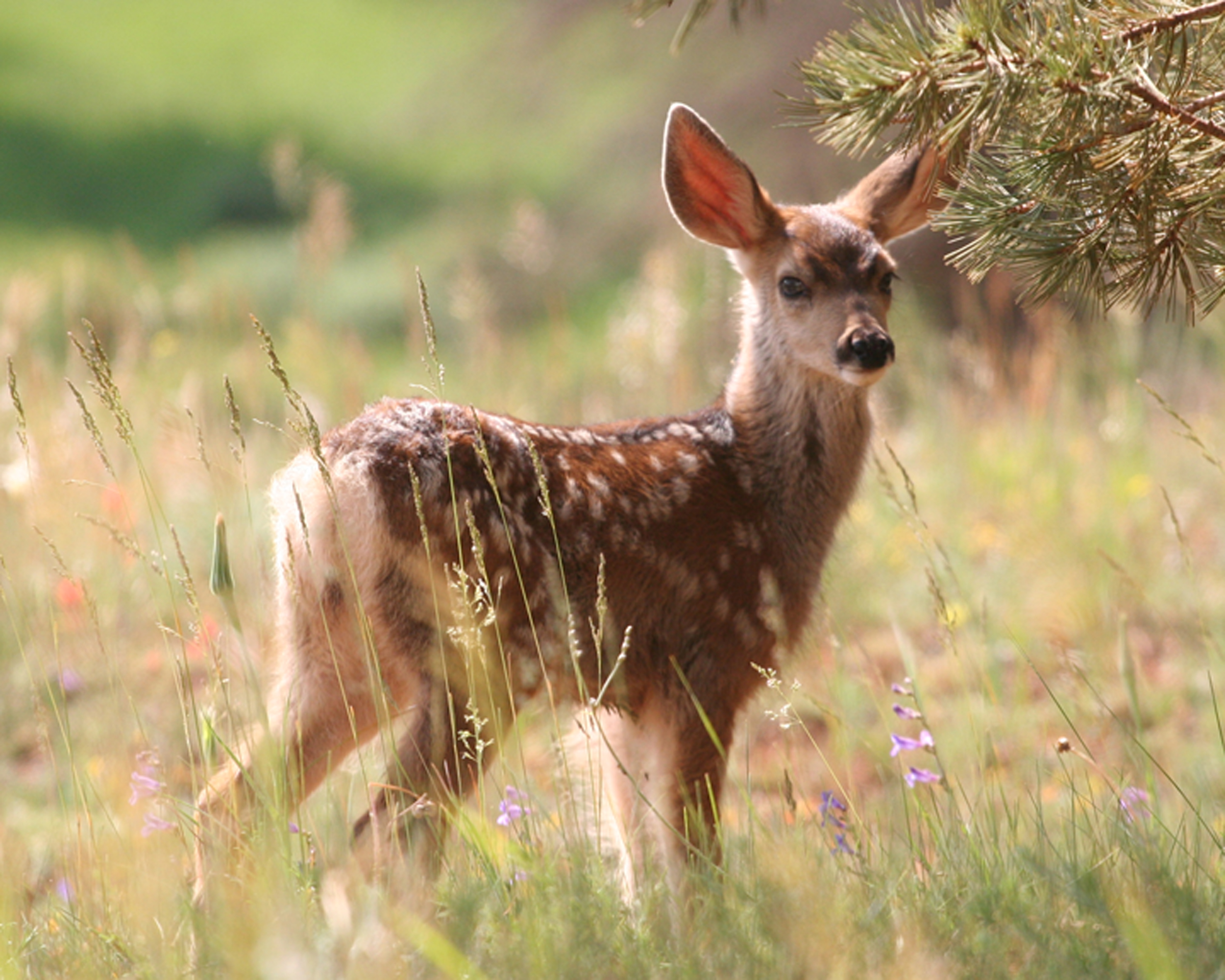 Fawn Under a tree